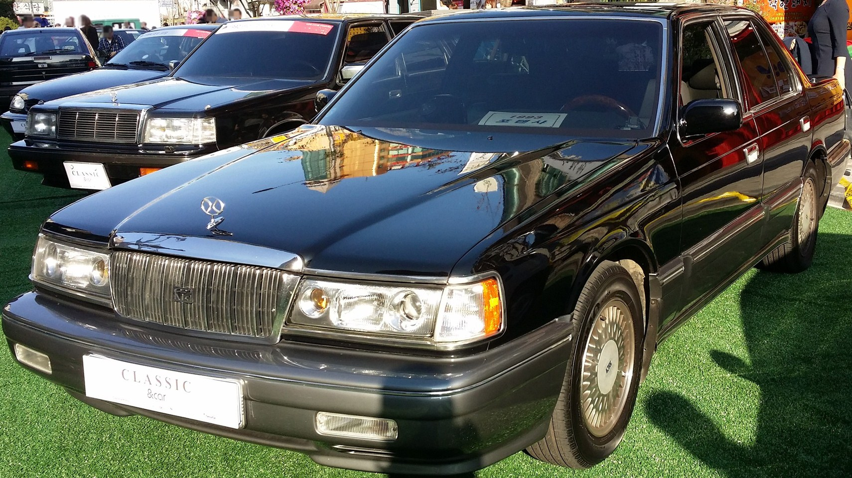 Kia Potentia